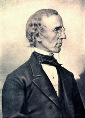 Jeffries Wyman (1814-1874) naturalist and anatomist